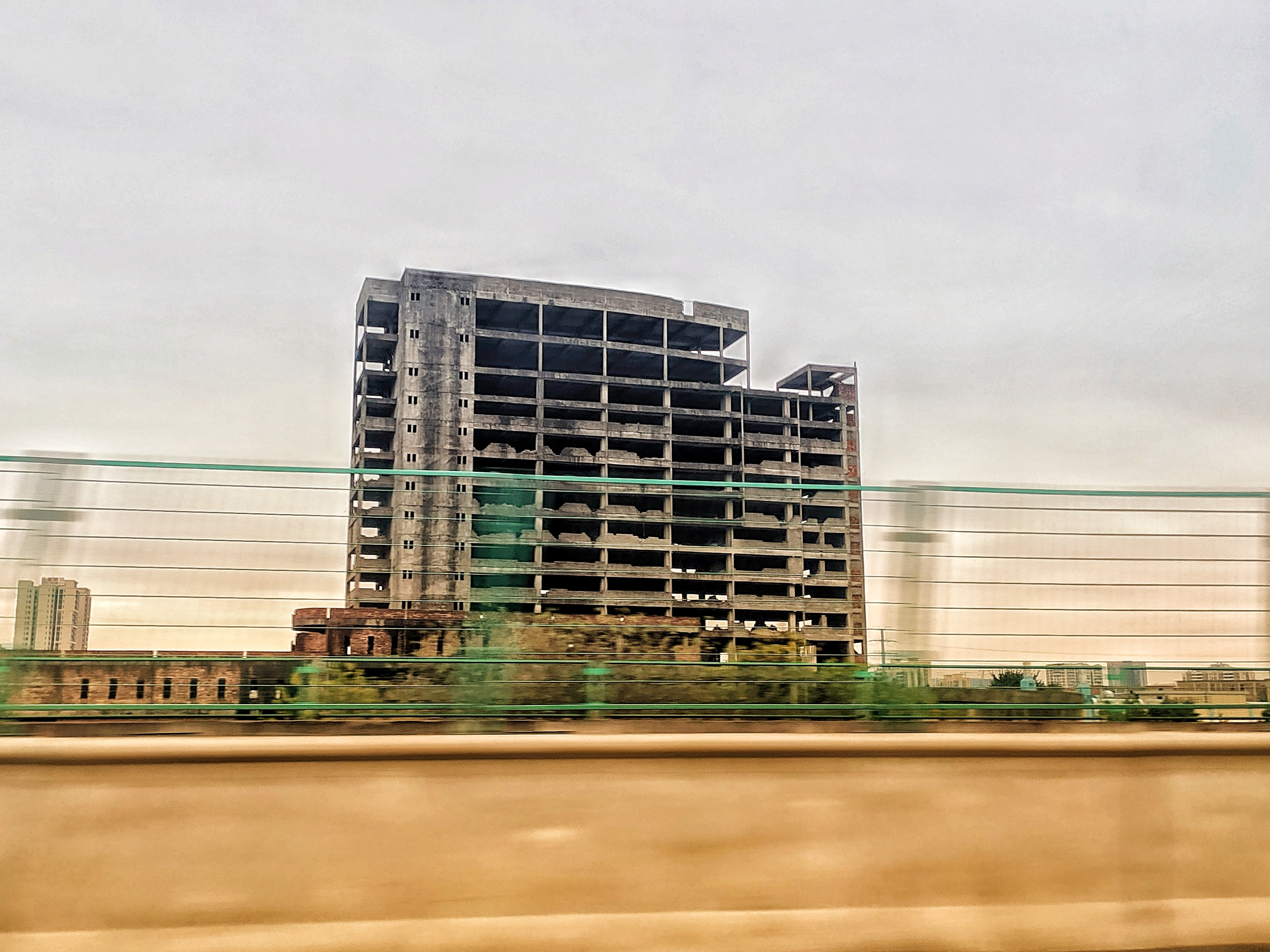 A abandoned building near the G0421 Expwy